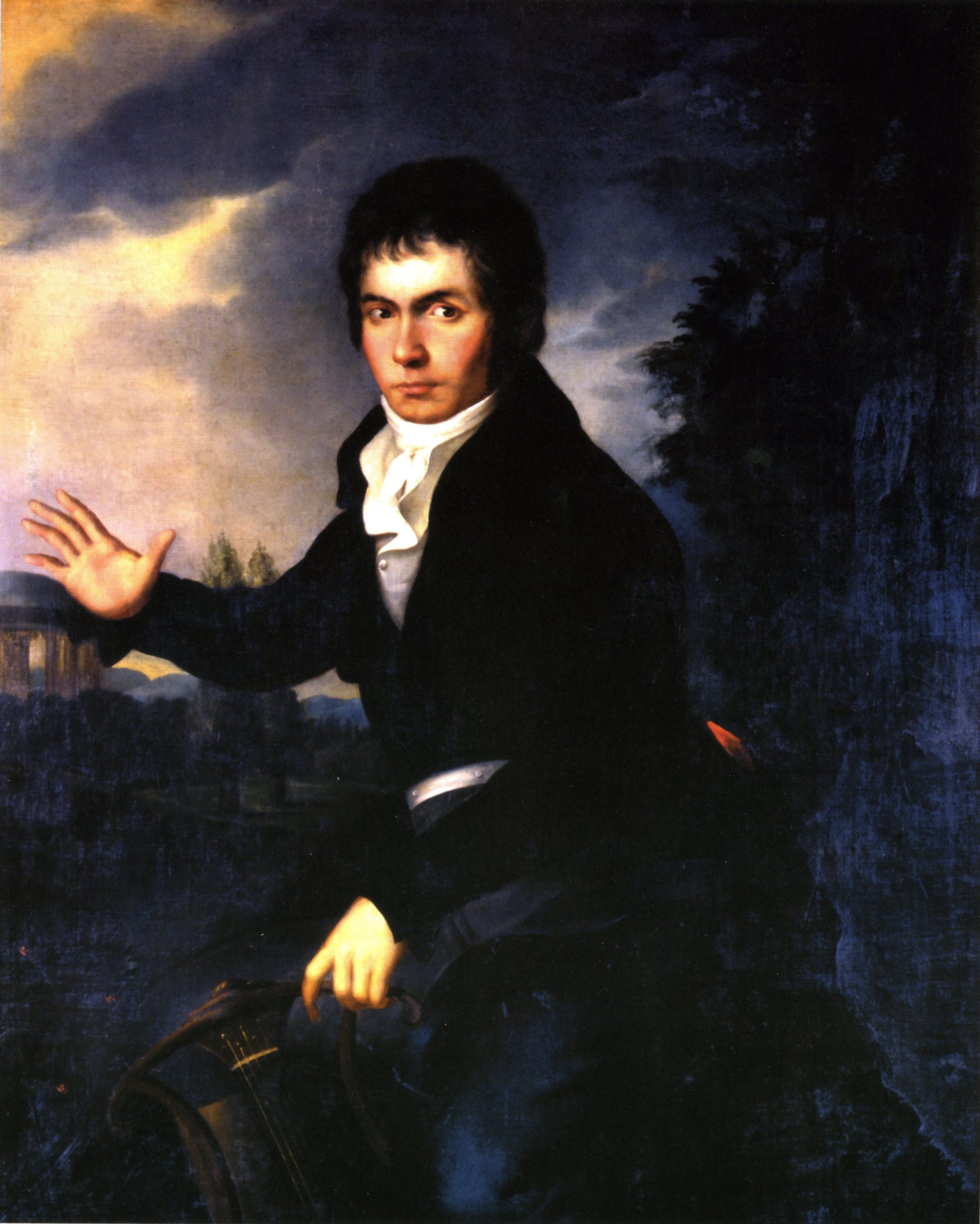 Portrait (ca. 1808) by an unidentified artist of the painting of Ludwig van Beethoven by Joseph Willibrord Mähler; the painting is owned by the New York Public Library.